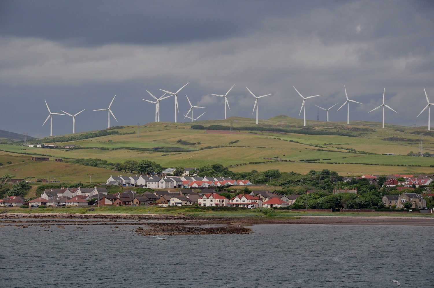 The skyline of Ardrossan, North Ayrshire, Scotland, is dominated by an enormous wind farm. The houses in front are on Eglinton Road.